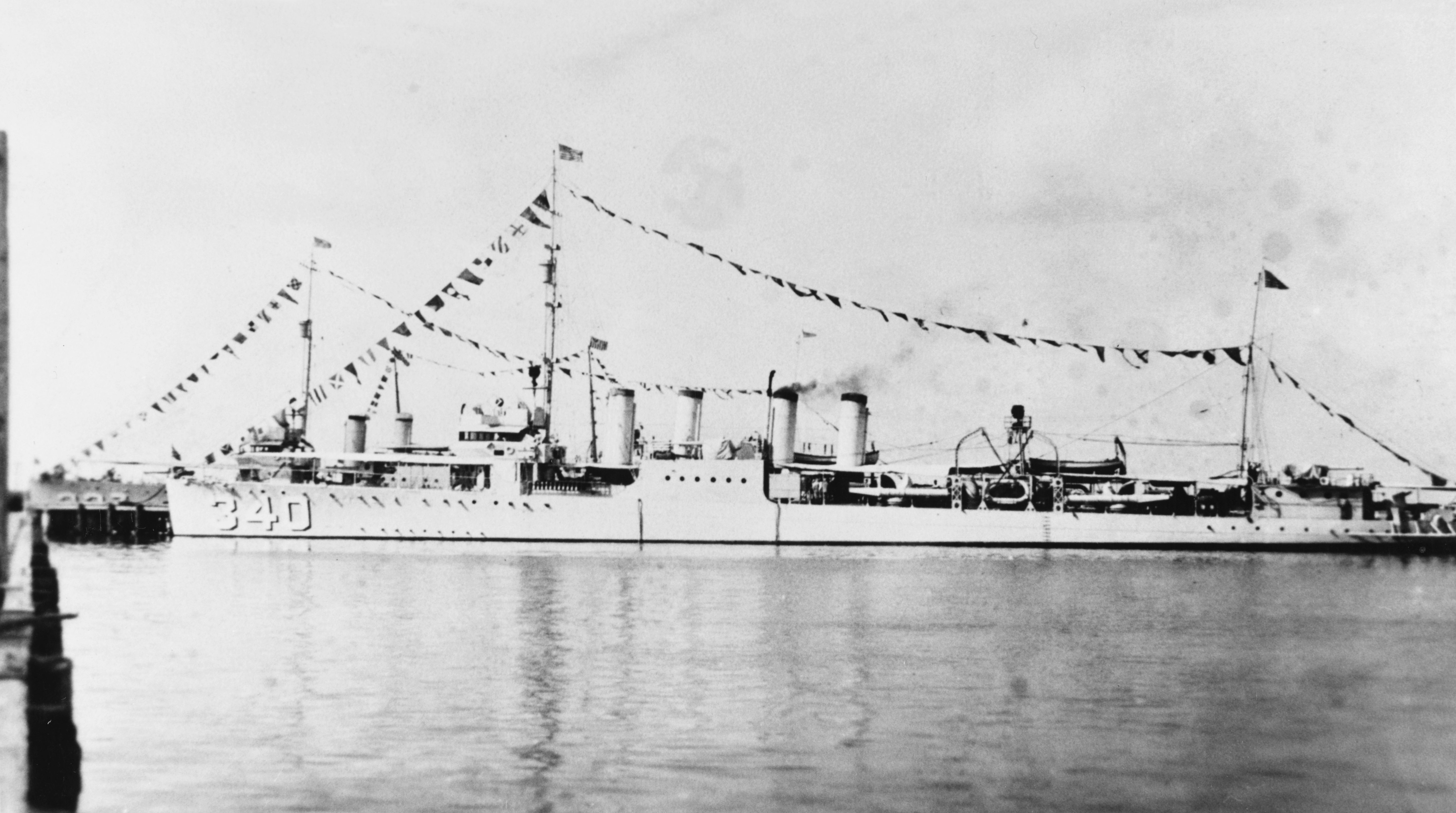 The U.S. Navy destroyer USS Perry (DD-340) at Key West, Florida (USA), 4 July 1934. The ship is dressed for the U.S. Independence Day. USS Zane (DD-337) is visible in the background.